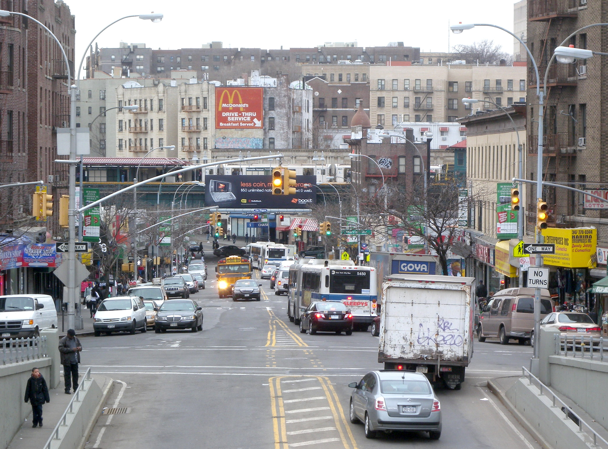 Looking west along East Burnside Avenue from Grand Concourse in Tremont, at Burnside Avenue (IRT Jerome Avenue Line) on a cloudy afternoon with a 4 train of R142 cars standing in the station.